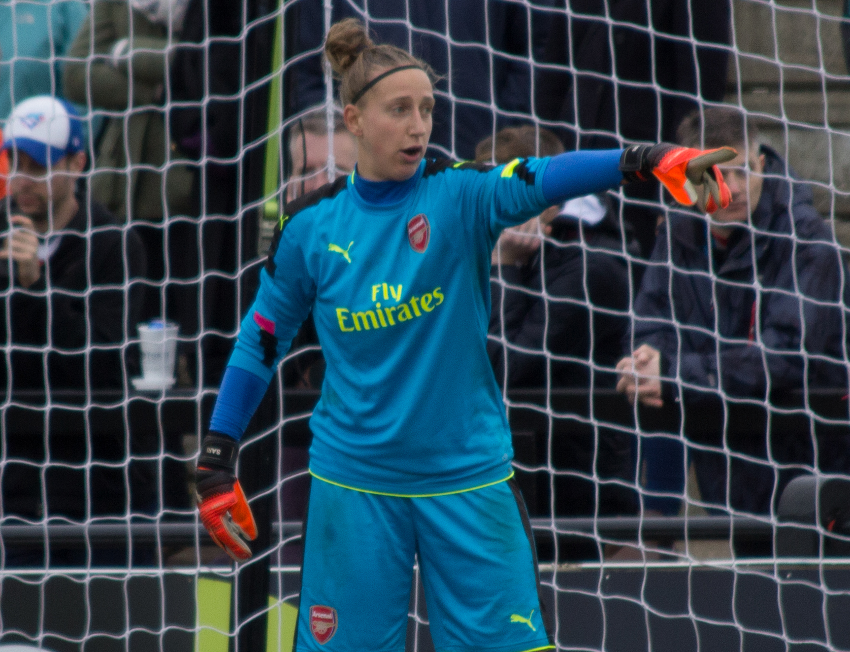 Arsenal LFC (Red) v Kelly Smith All-Stars XI (Yellow), 19 February 2017 – second half